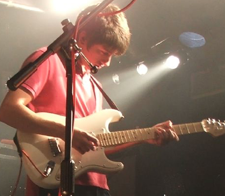 Norwich05